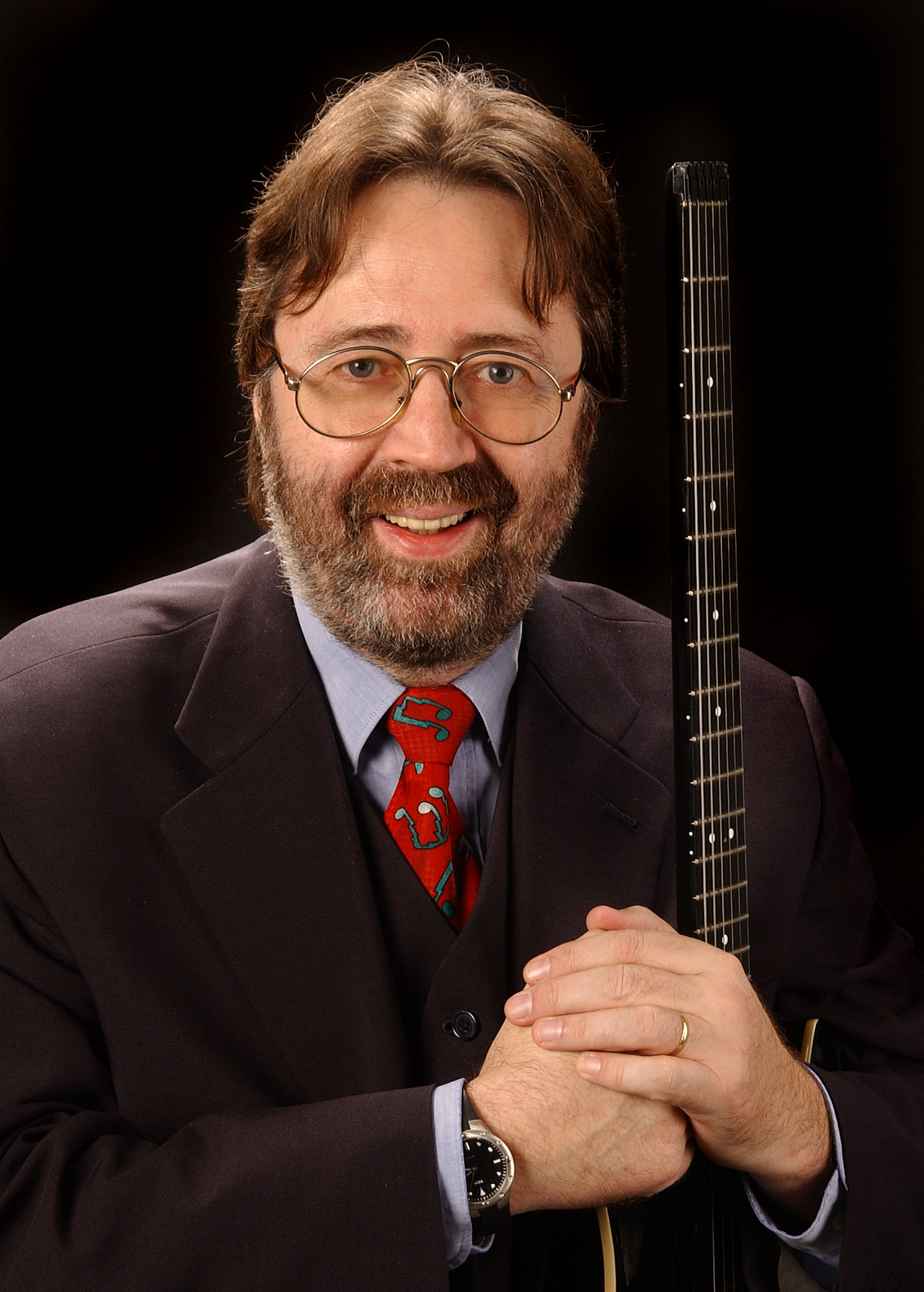 A Picture of the German Musician Joachim Schaefer from Mannheim.